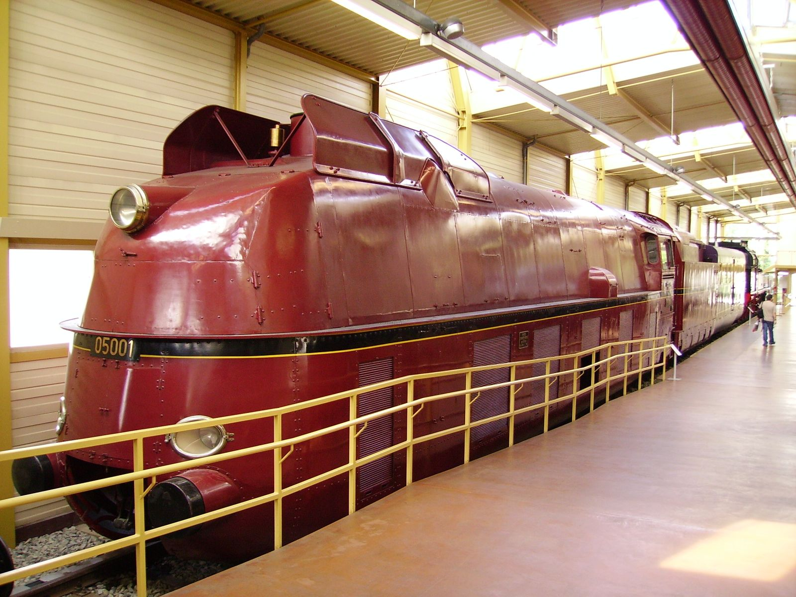 German steam engine 05 001 at the DB Museum in Nuremberg